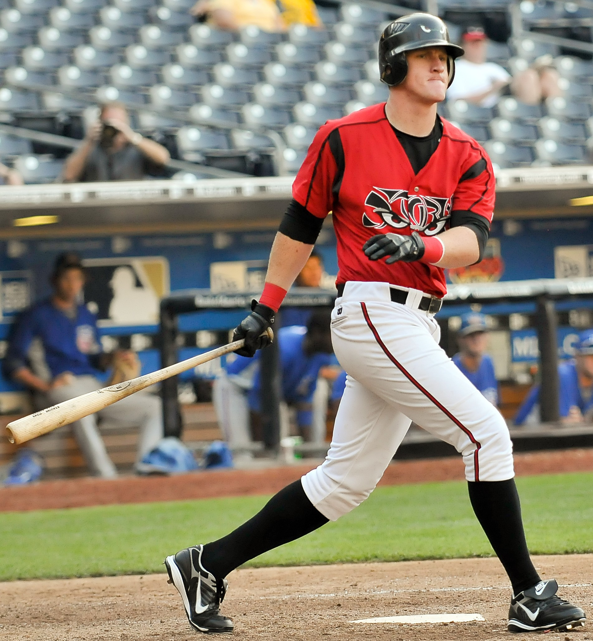 Allan Dykstra